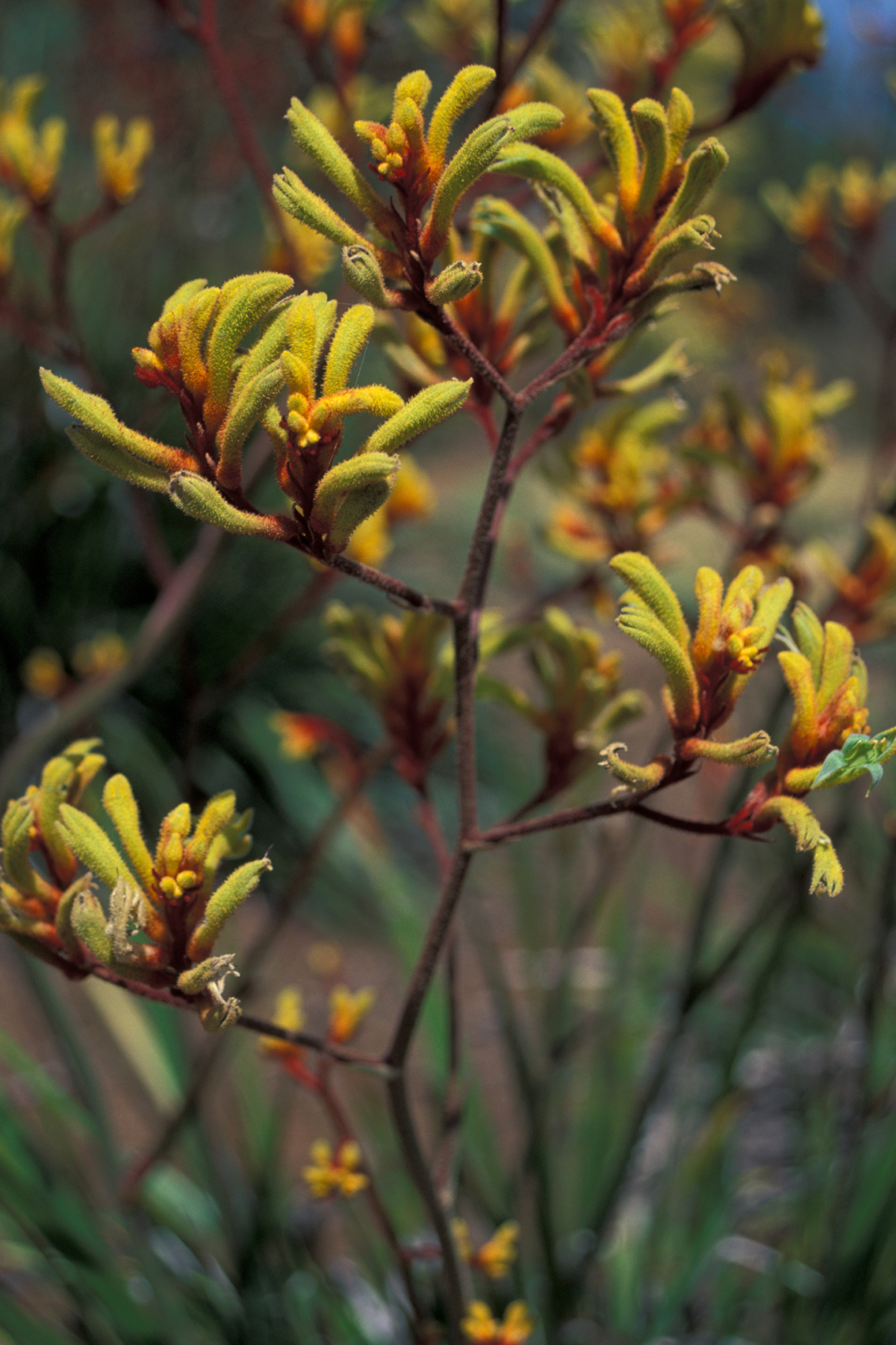 Anigozanthos flavidus (flowers). Location: Maui, Kula Experiment Station